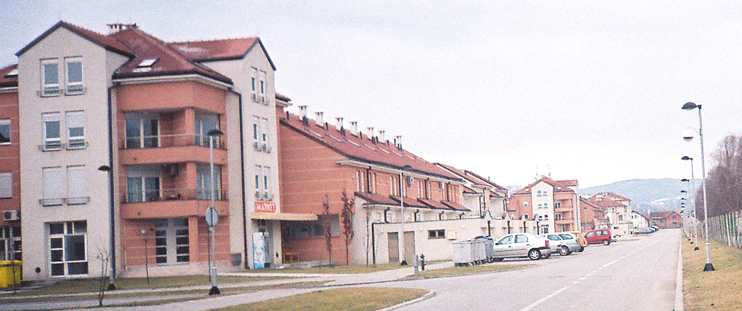 Image of Veternik near Novi Sad (self made)